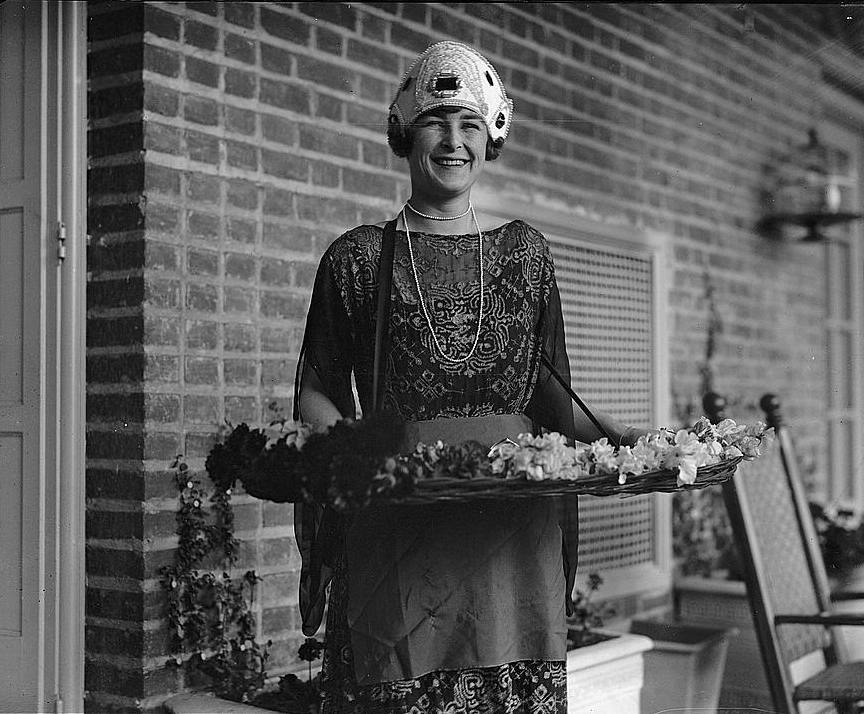 Title Mrs. Isabel Pell, [4/10/23] Created / Published [1923 April 10] Format Headings Glass negatives. Notes - Title from unverified data provided by the National Photo Company on the negative or negative sleeve. - Date from related negative LC-F8-23563. - Gift; Herbert A. French; 1947. - This glass negative might show streaks and other blemishes resulting from a natural deterioration in the original coatings. - Temp. note: Batch two. Medium 1 negative : glass ; 4 x 5 in. or smaller Call Number/Physical Location LC-F8- 23565 [P&P] Source Collection National Photo Company Collection (Library of Congress) Repository Library of Congress Prints and Photographs Division Washington, D.C. 20540 USA Digital Id npcc 08208 //hdl.loc.gov/loc.pnp/npcc.08208 Control Number npc2007008207 Reproduction Number LC-DIG-npcc-08208 (digital file from original) Rights Advisory No known restrictions on publication. Online Format image Description 1 negative : glass ; 4 x 5 in. or smaller